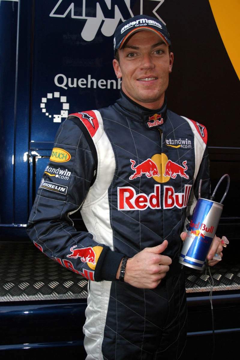 Doornbos portrait, taken in Barcelona